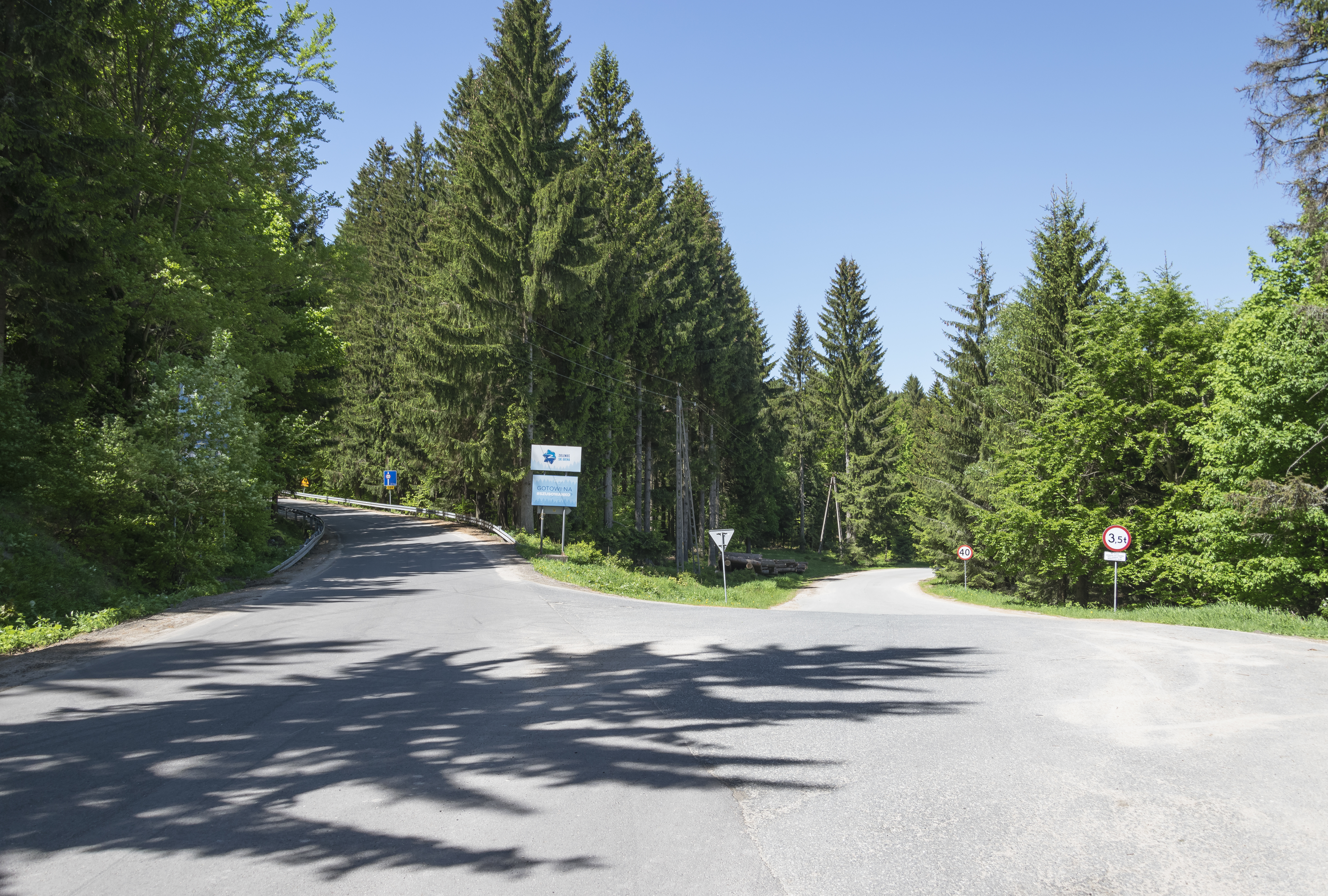 Voivodeship road 389 (Poland), Rozdroże pod Hutniczą Kopą